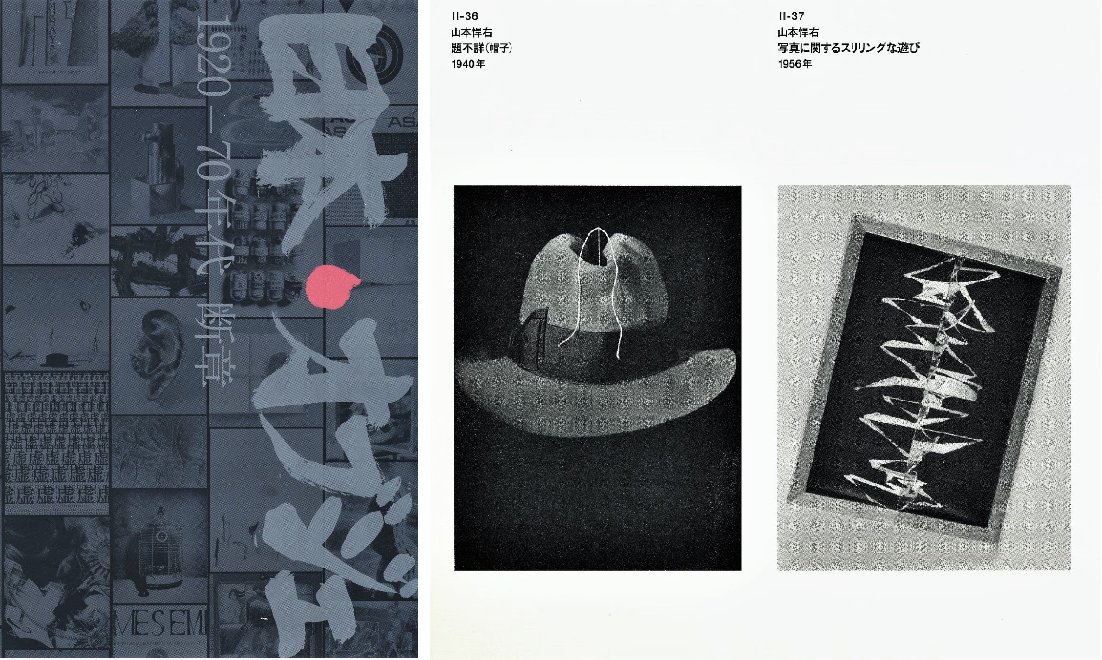 "Japan ・ Object 1920's - 70's" exhibition 2012, Urawa Art Museum, photo on right; Kansuke Yamamoto works.